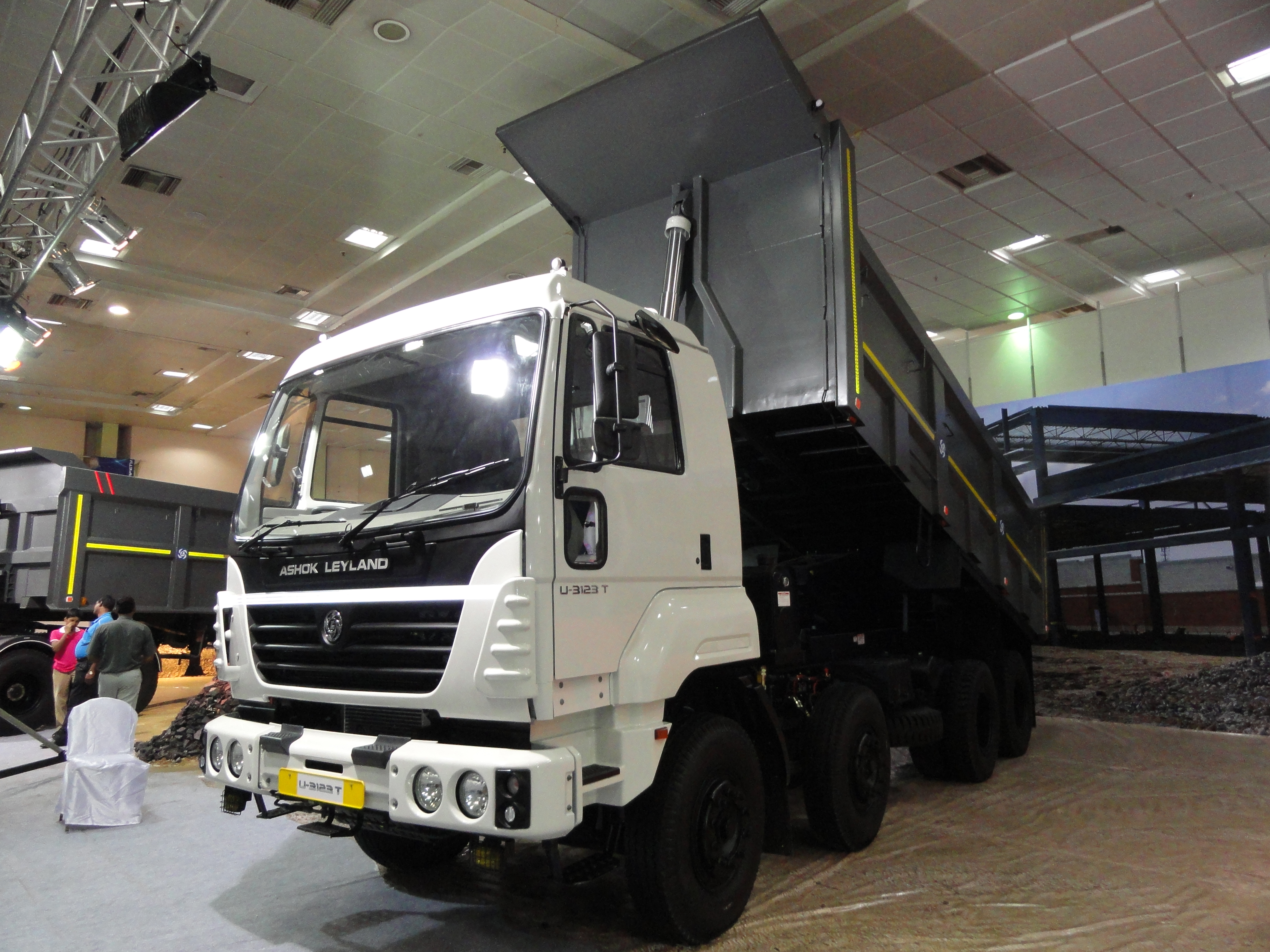 New Truck from Ashok Leyland - Chennai - India.